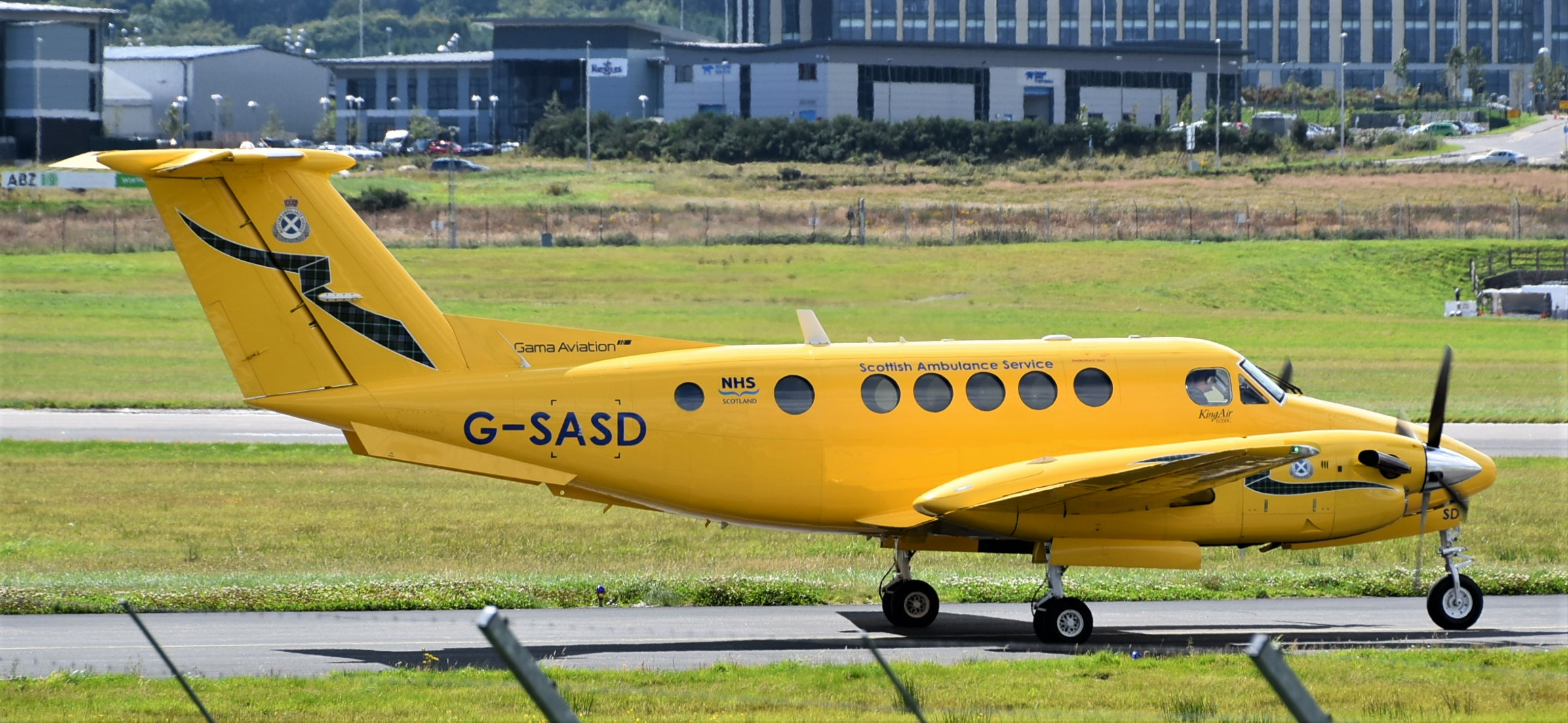 Beech B200C of Gama Aviation at Aberdeen-ABZ, 08/08/17.